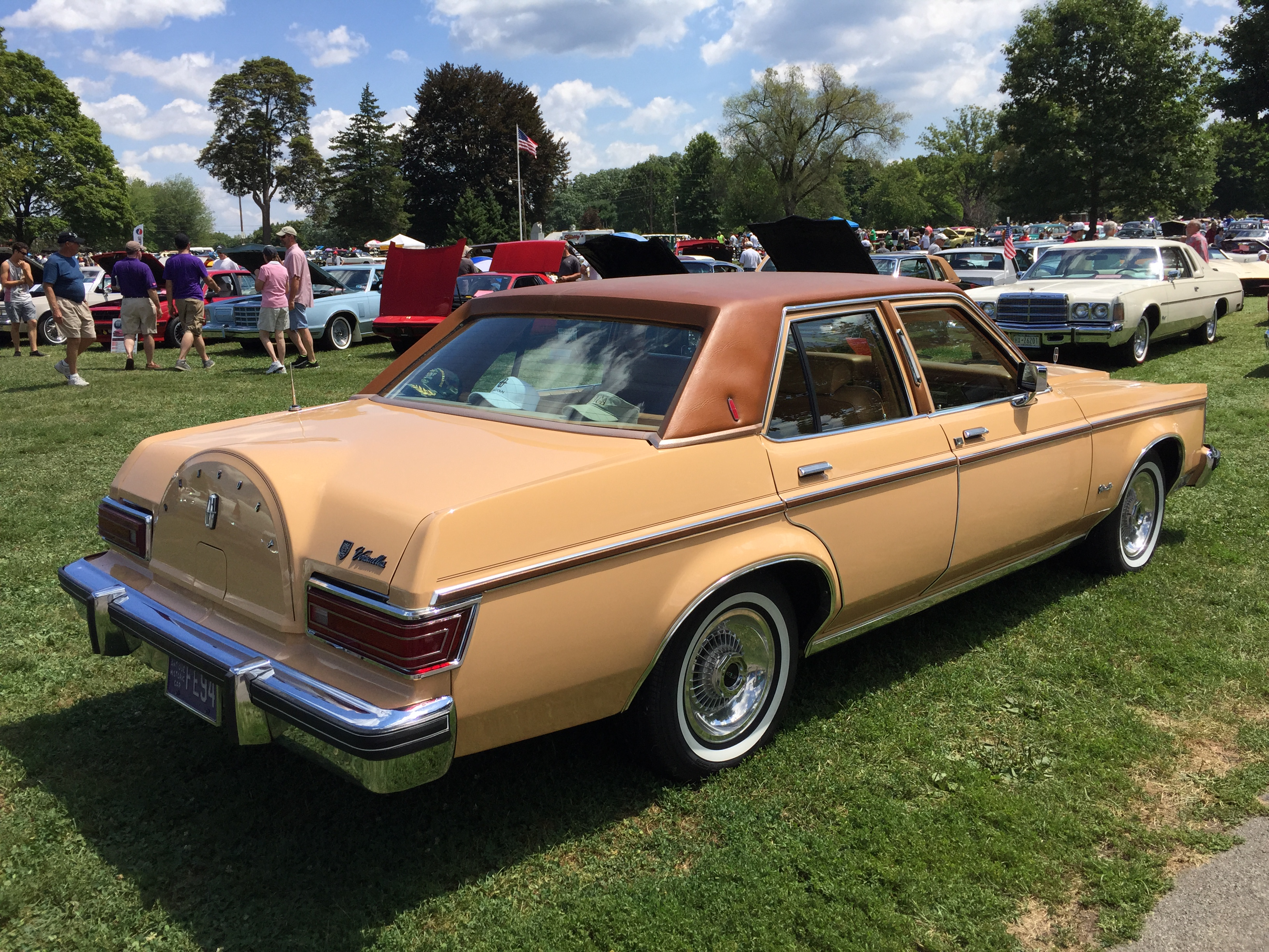 1977 Lincoln Versailles in factory condition. Picture taken at the 52nd Annual "Das Awkscht Fescht" antique car show in Macungie, Pennsylvania.